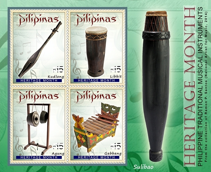 The National Heritage Month featuring Philippine Traditional Musical Instruments Stamps, Souvenir Sheet